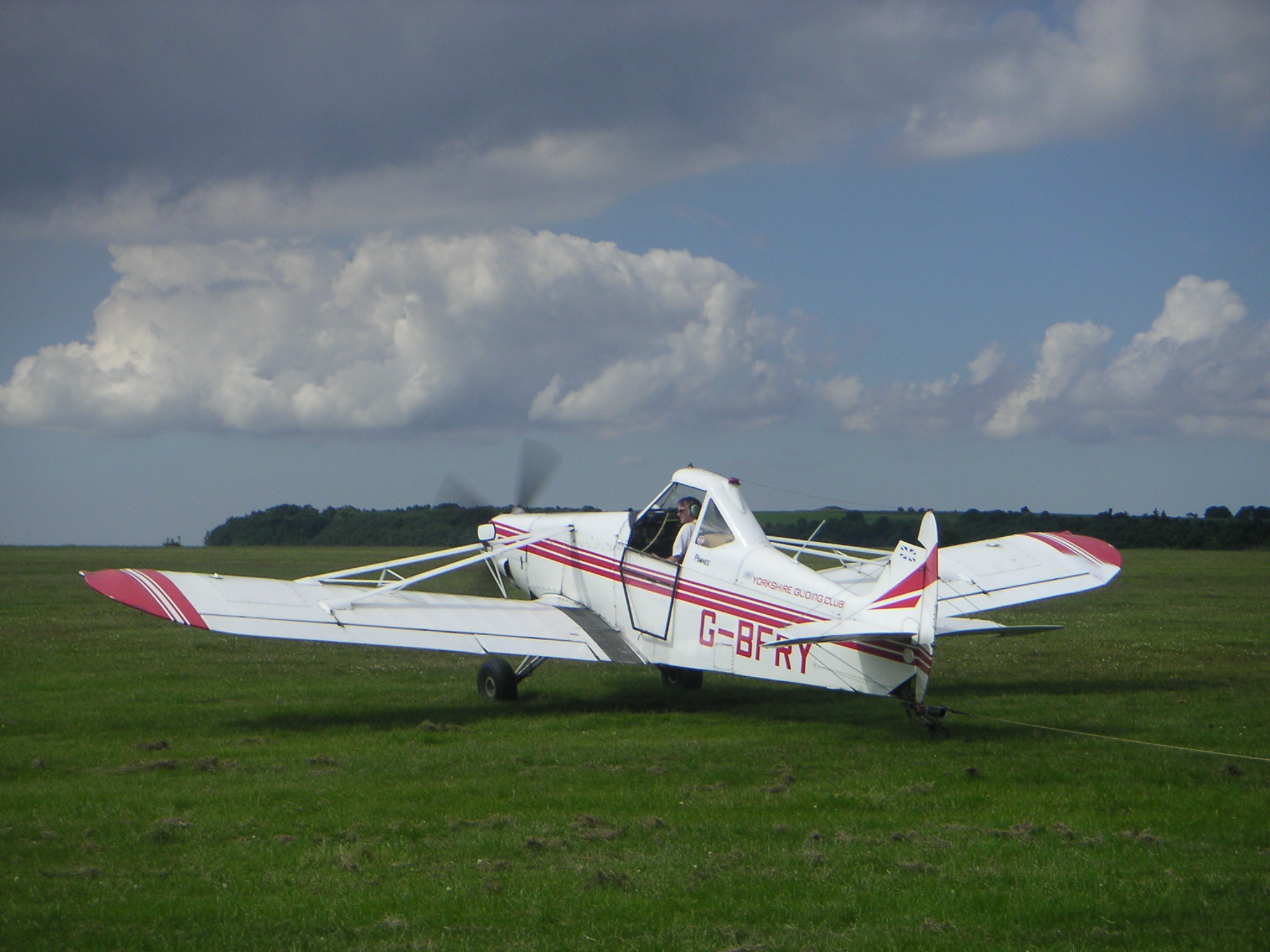 A Piper PA-25 Pawnee (G-BFRY) preparing to aerotow a glider. Photo taken by User:MartinLing on 2005-07-11 at Yorkshire Gliding Club, Sutton Bank during the 2005 Inter-University Gliding Competition.